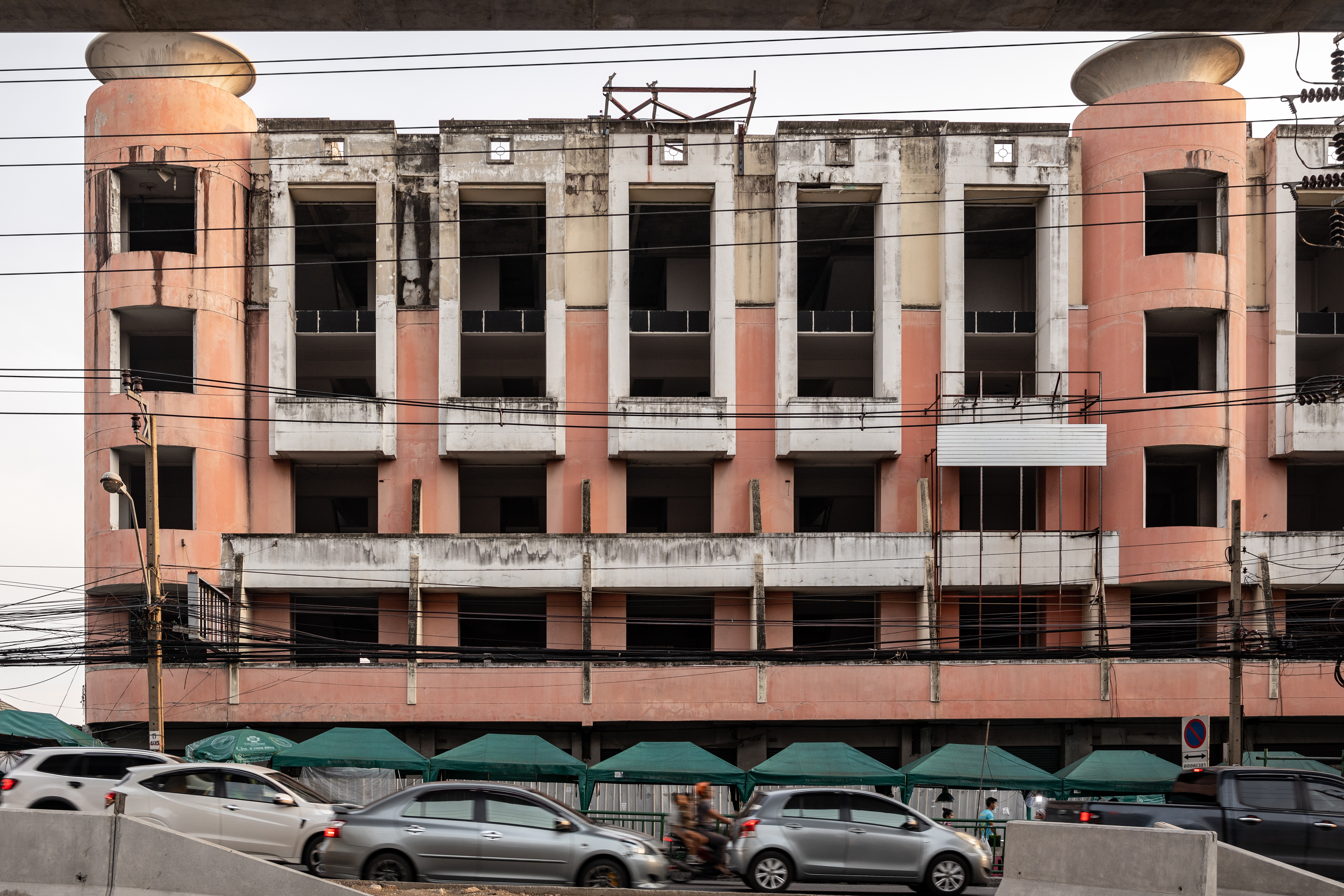 The commercial buildings frontage along Bangkae market road, Bangkok.